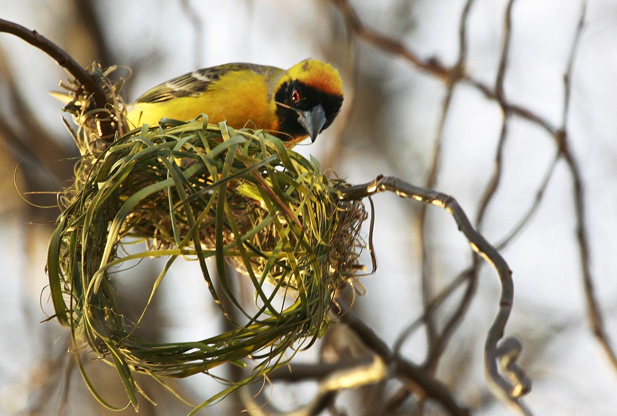 Southern Masked-Weaver (also known as a African Masked-weaver) starting to make a nest in a tree in a back garden in Johannesburg, South Africa.